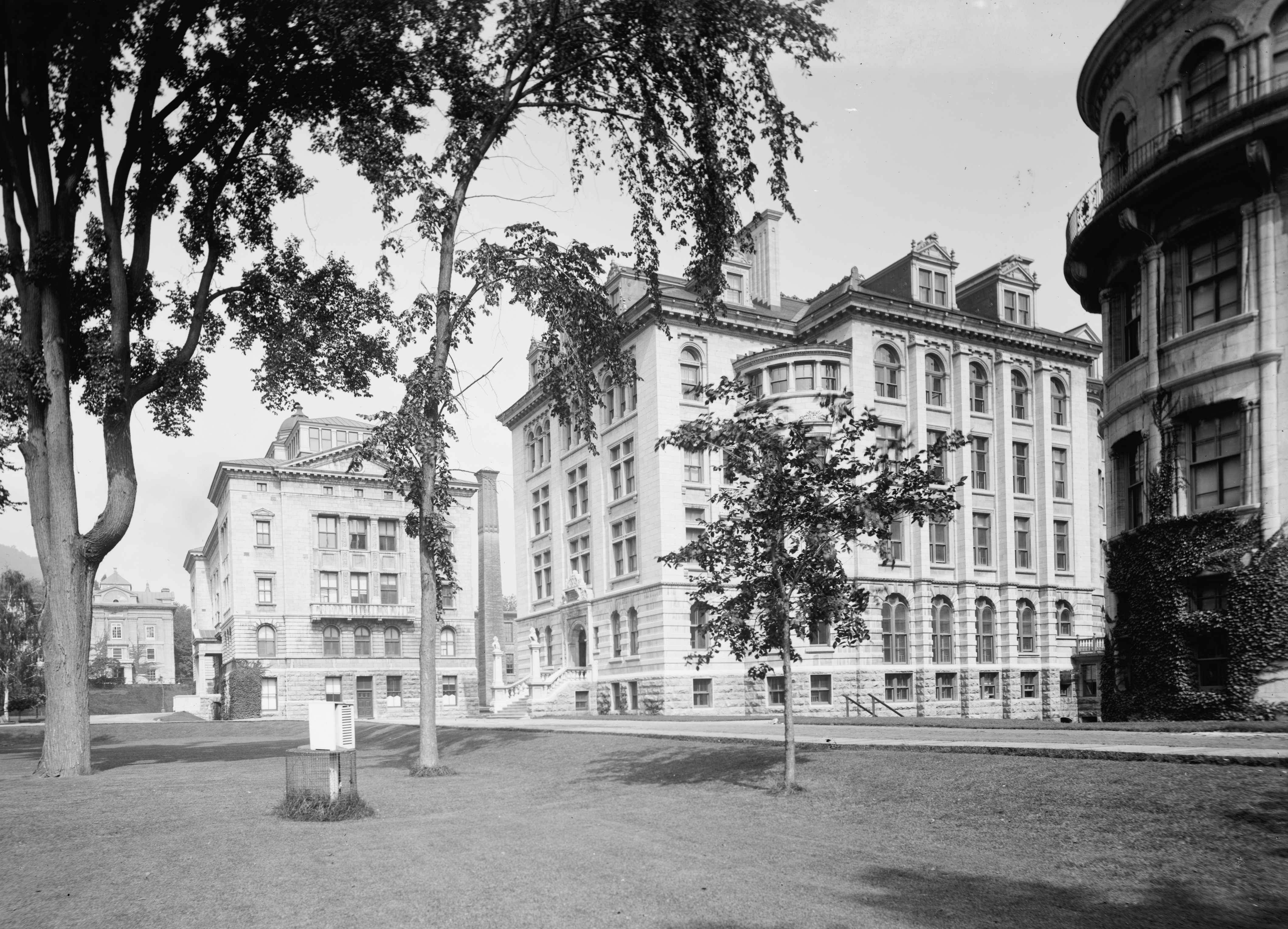 McDonald Engineering Building, McGill University, Montreal